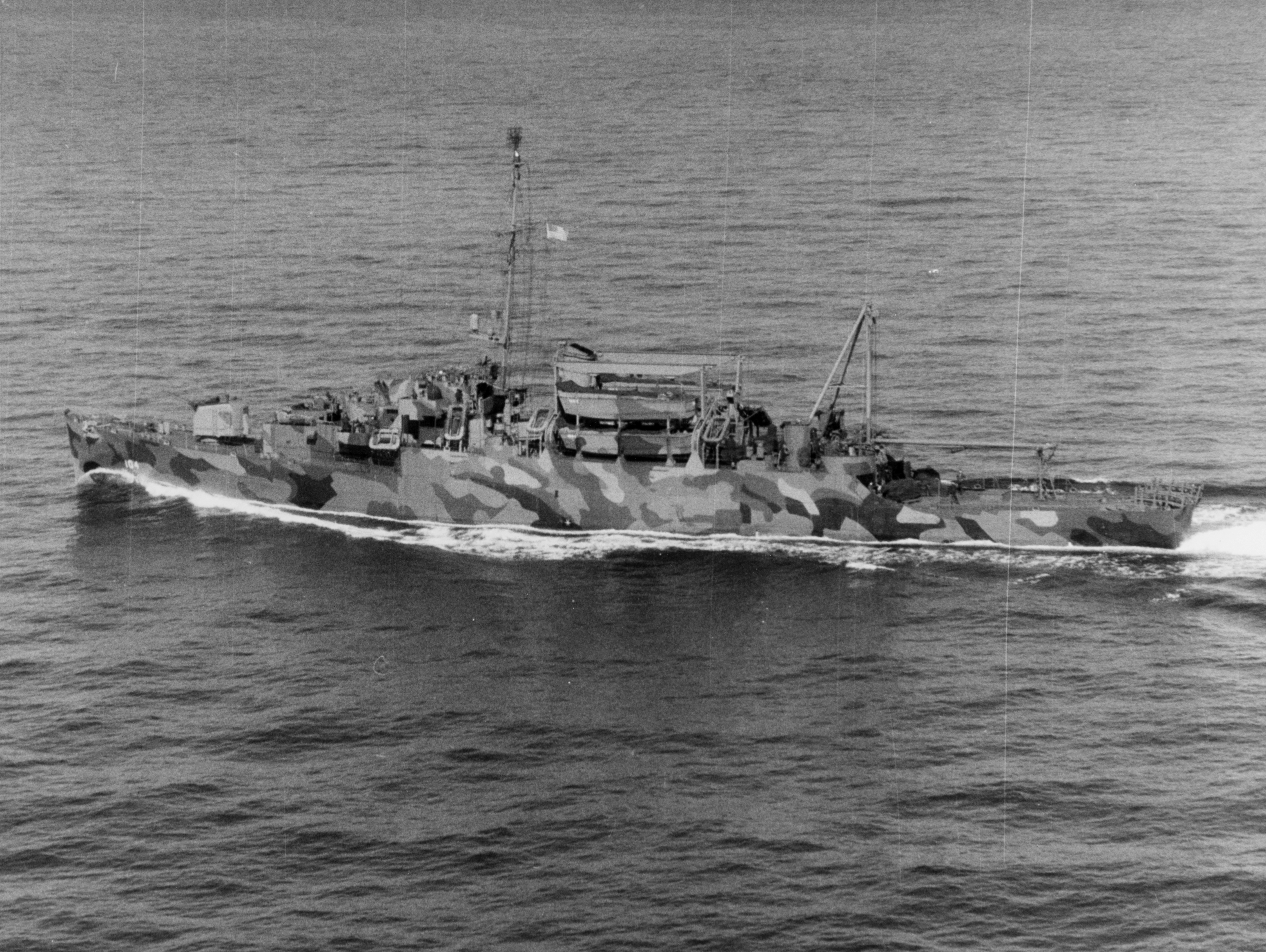 The U.S. Navy high-speed transport USS William J. Pattison (APD-104) underway in the Atlantic Ocean on 9 March 1945. She is painted in Camouflage Measure 31, Design 20L. The photo was taken by a blimp of squadron ZP-11.